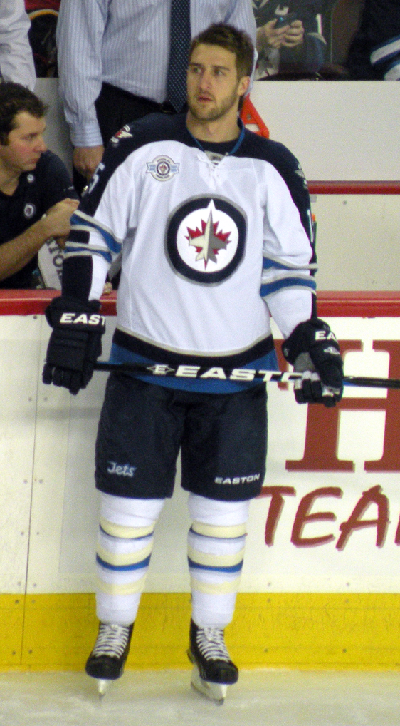 Winnipeg Jets forward Tanner Glass prior to a National Hockey League game against the Calgary Flames.